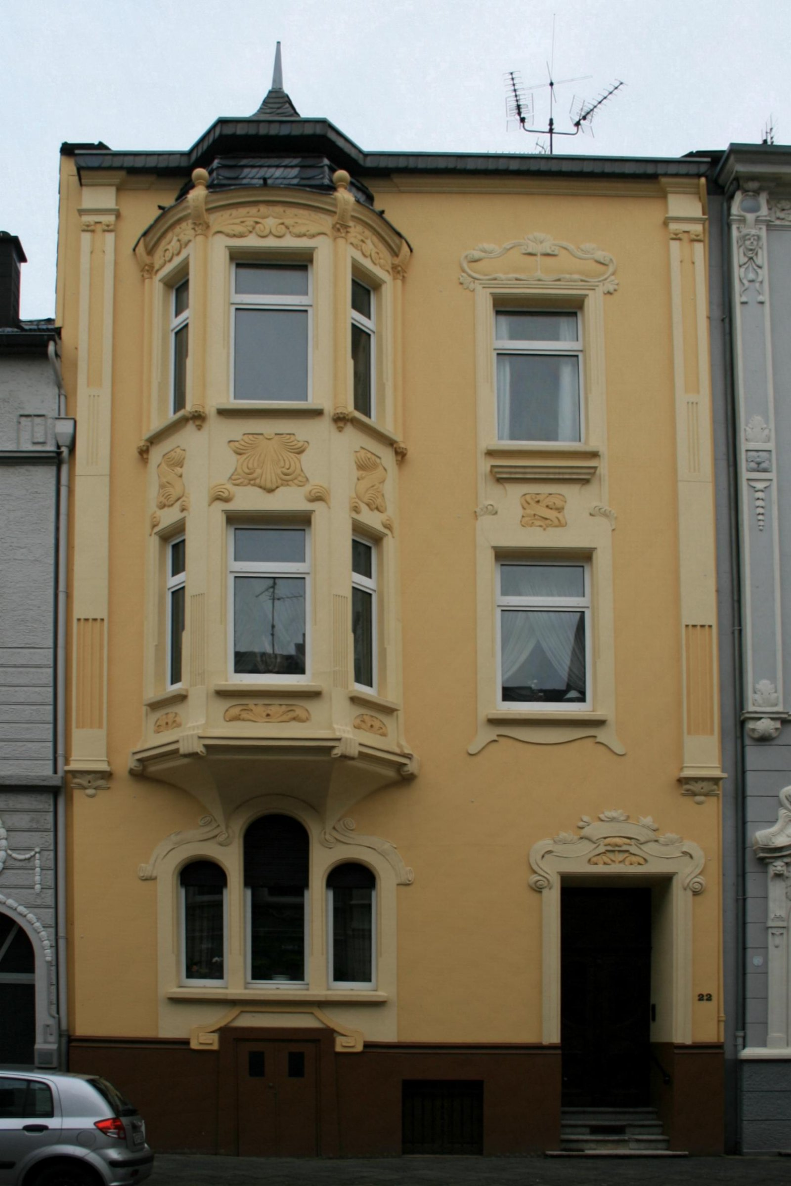 Cultural heritage monument No. St 035 in Mönchengladbach